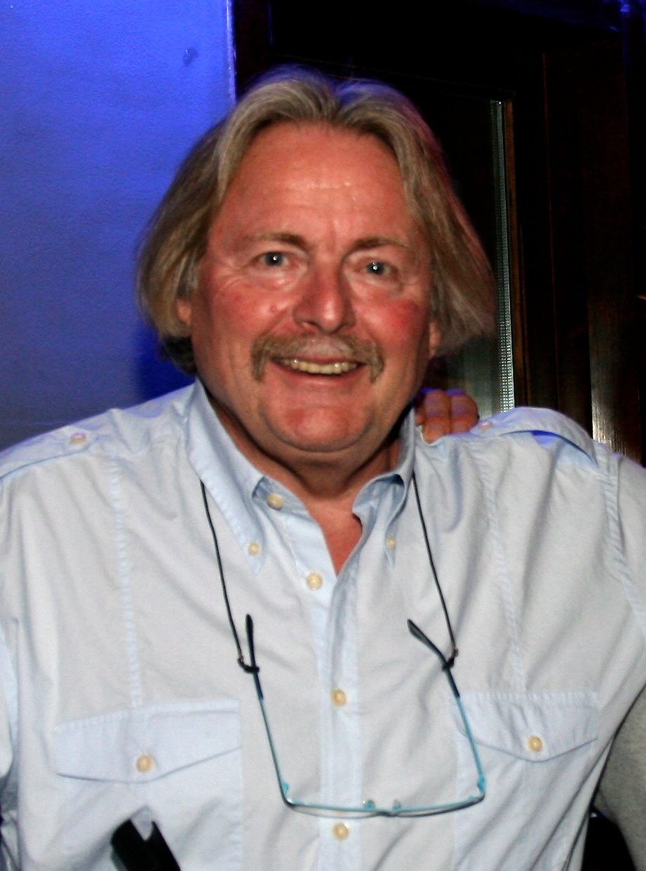 Helmut Debelius in Sharm el-Sheikh.